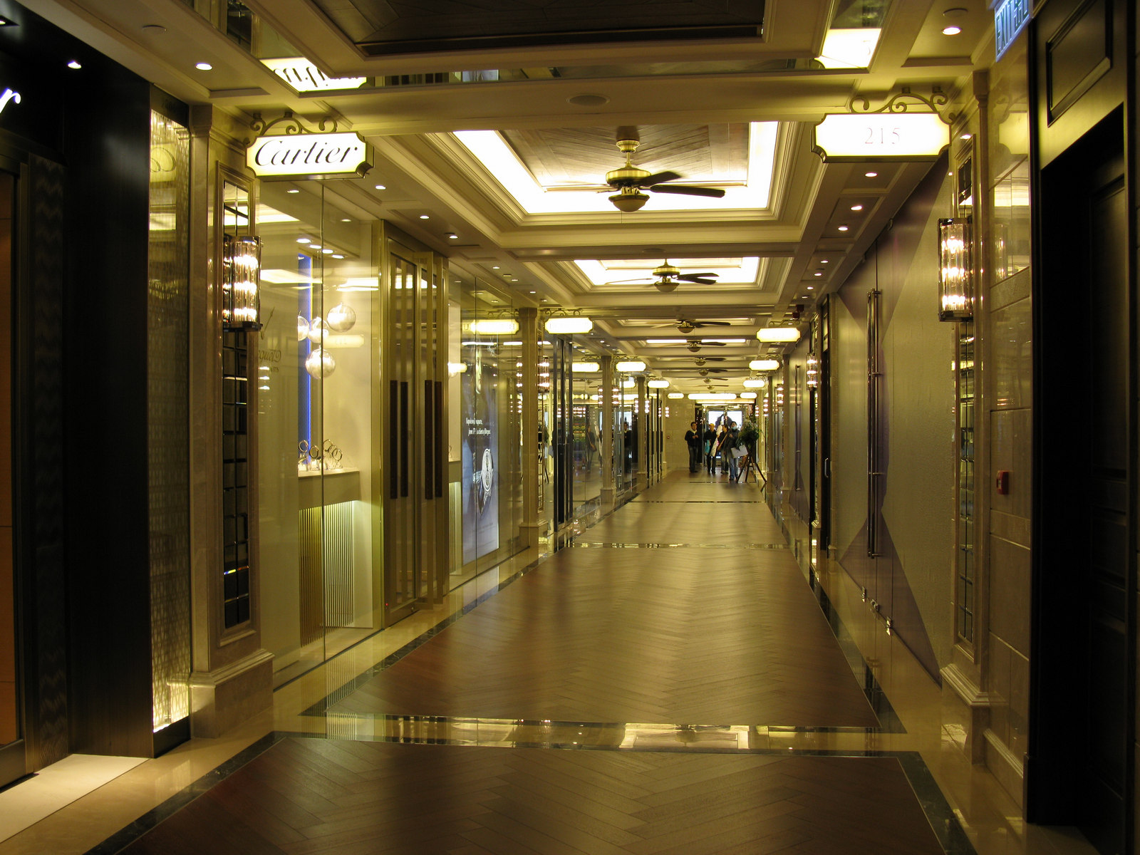 Shopping Arcade at 2/F, 1881 Heritage